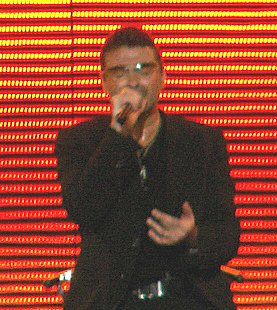 George Michael performing in Poland in 2007, for the 25 Live tour.